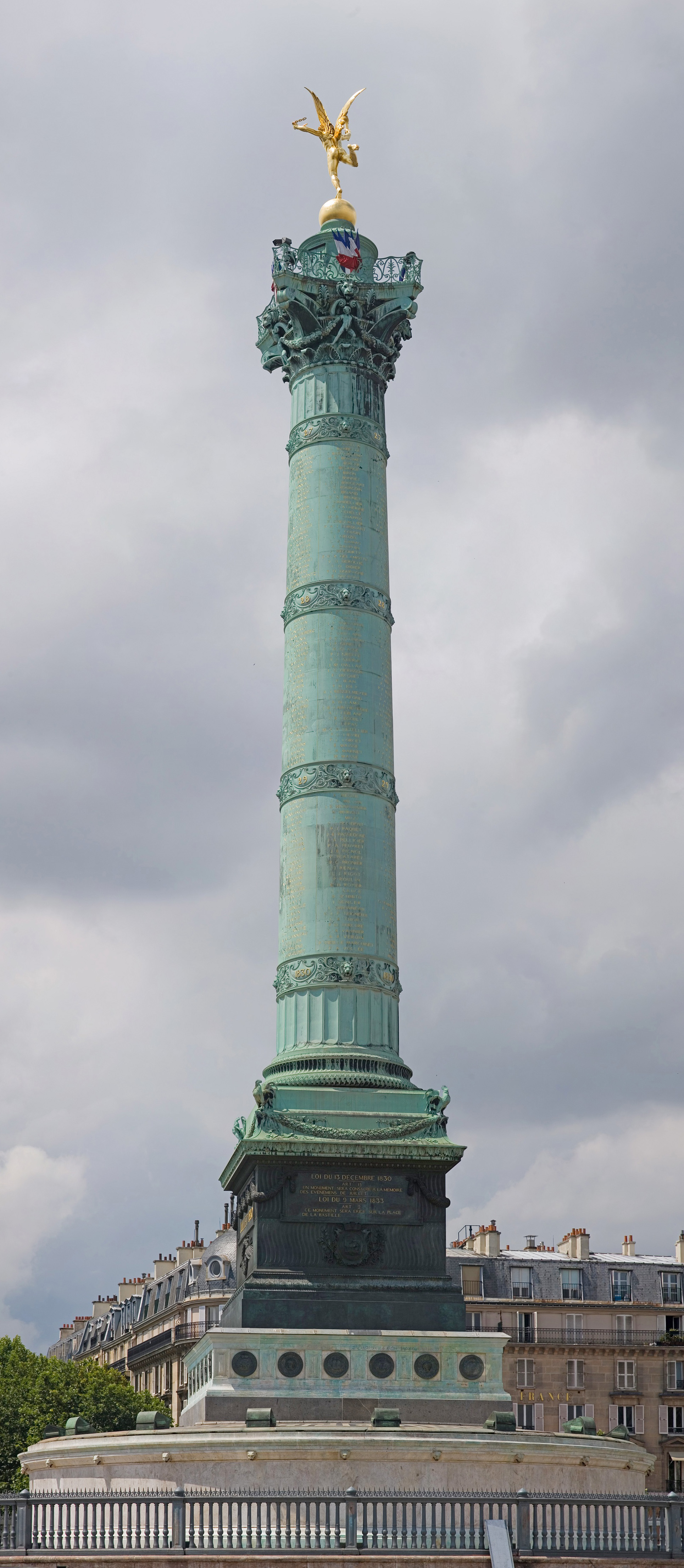 A panorama of July Column at Place de la Bastille comprising 6 segments stitched with PTGui. Taken with a Canon 5D and 24-105mm f/4L IS lens.